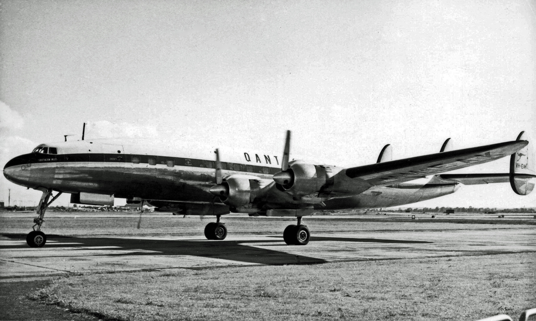 Qantas Lockheed L-1049 Super Constellation arriving at Heathrow from Australia